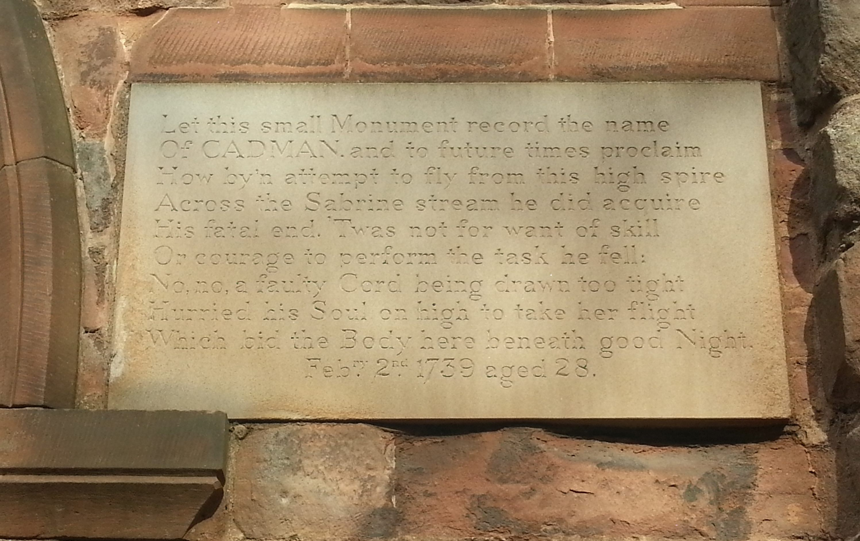 Memorial plaque to Robert Cadman on the tower of St Mary the Virgin, Shrewsbury.